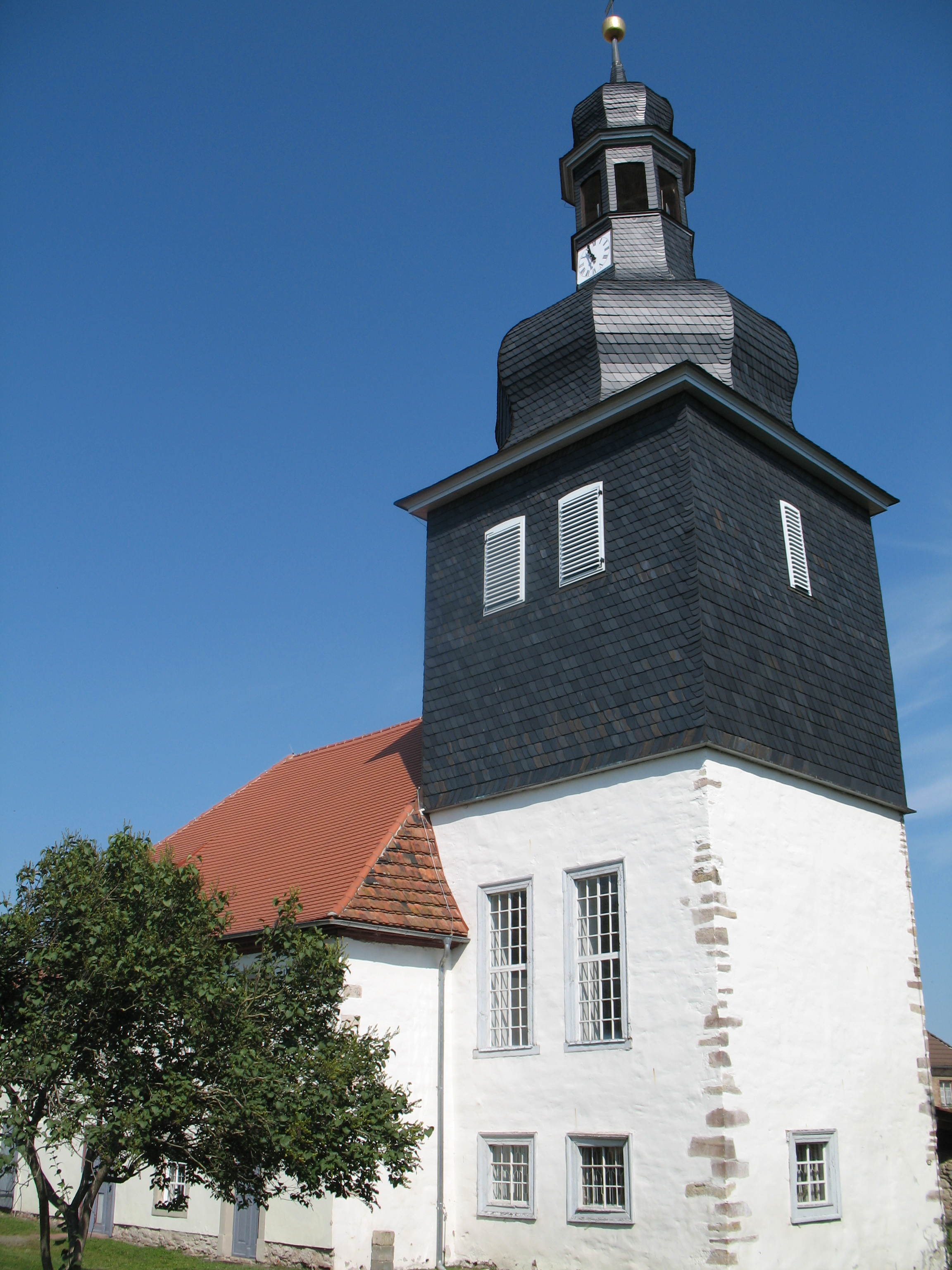 Church in Heygendorf, Thuringia, Germany